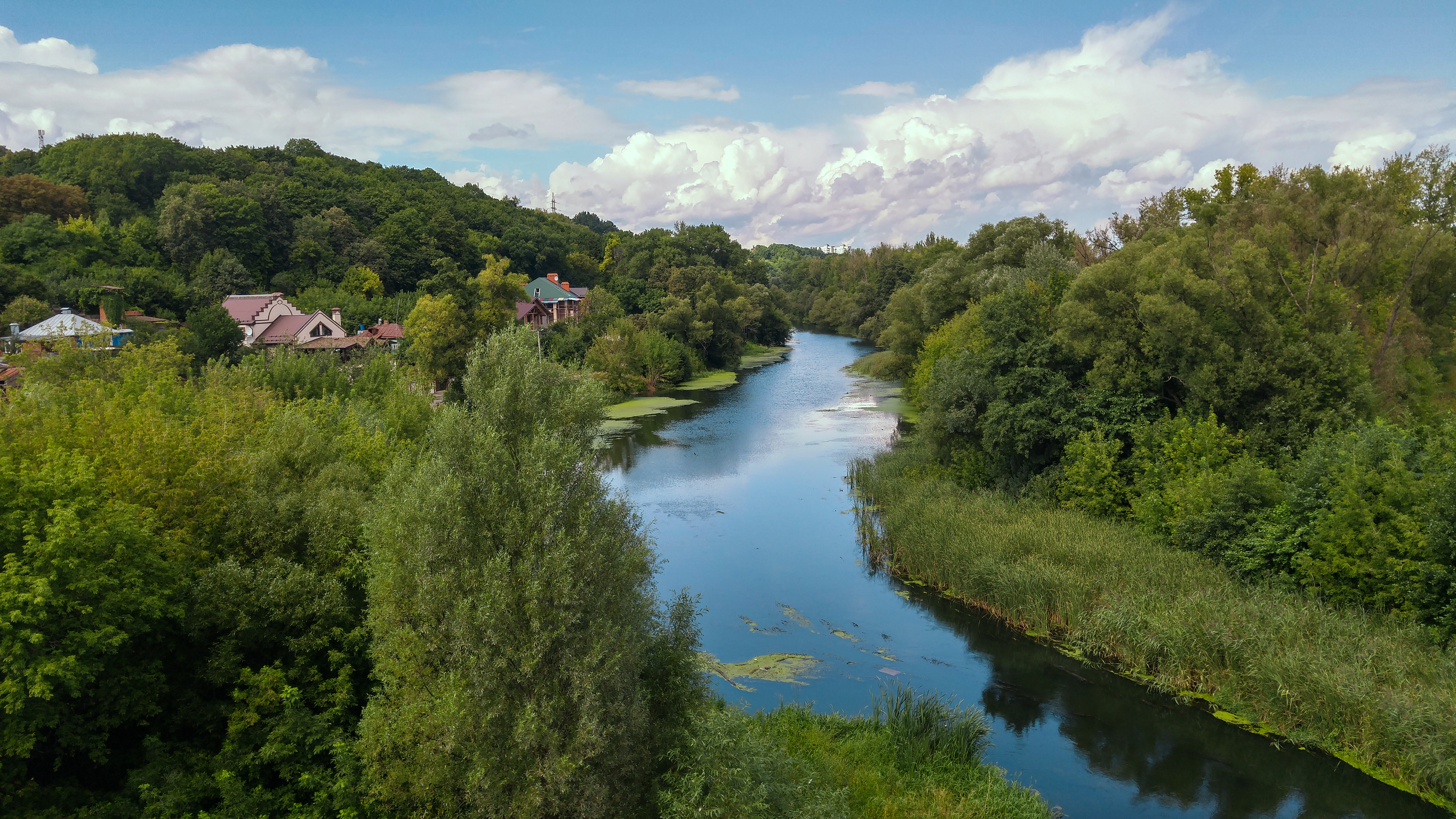 A view over the Tuskar river from Kiroskiy Brigde in Kursk, Russia